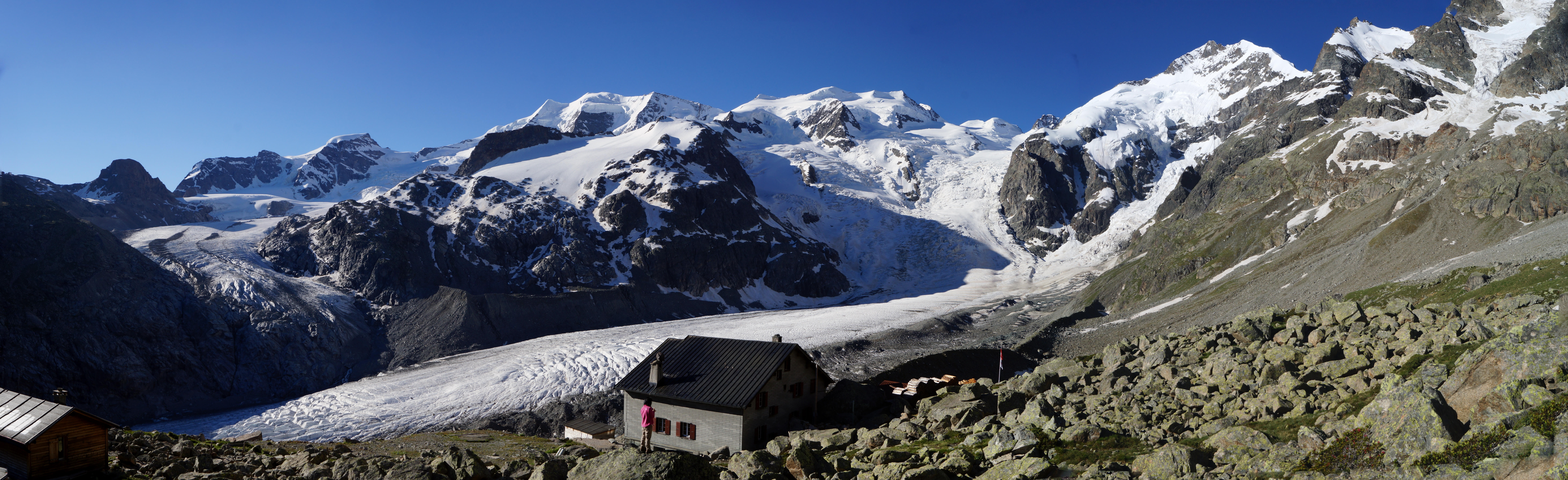 Panoramic view from Boval hut from east to southwest.